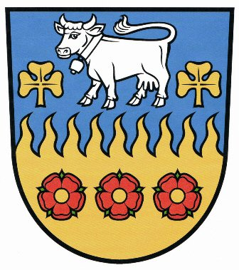 Wappen Gemeinde Upahl Landkreis Nordwestmecklenburg im Bundesland Mecklenburg-Vorpommern